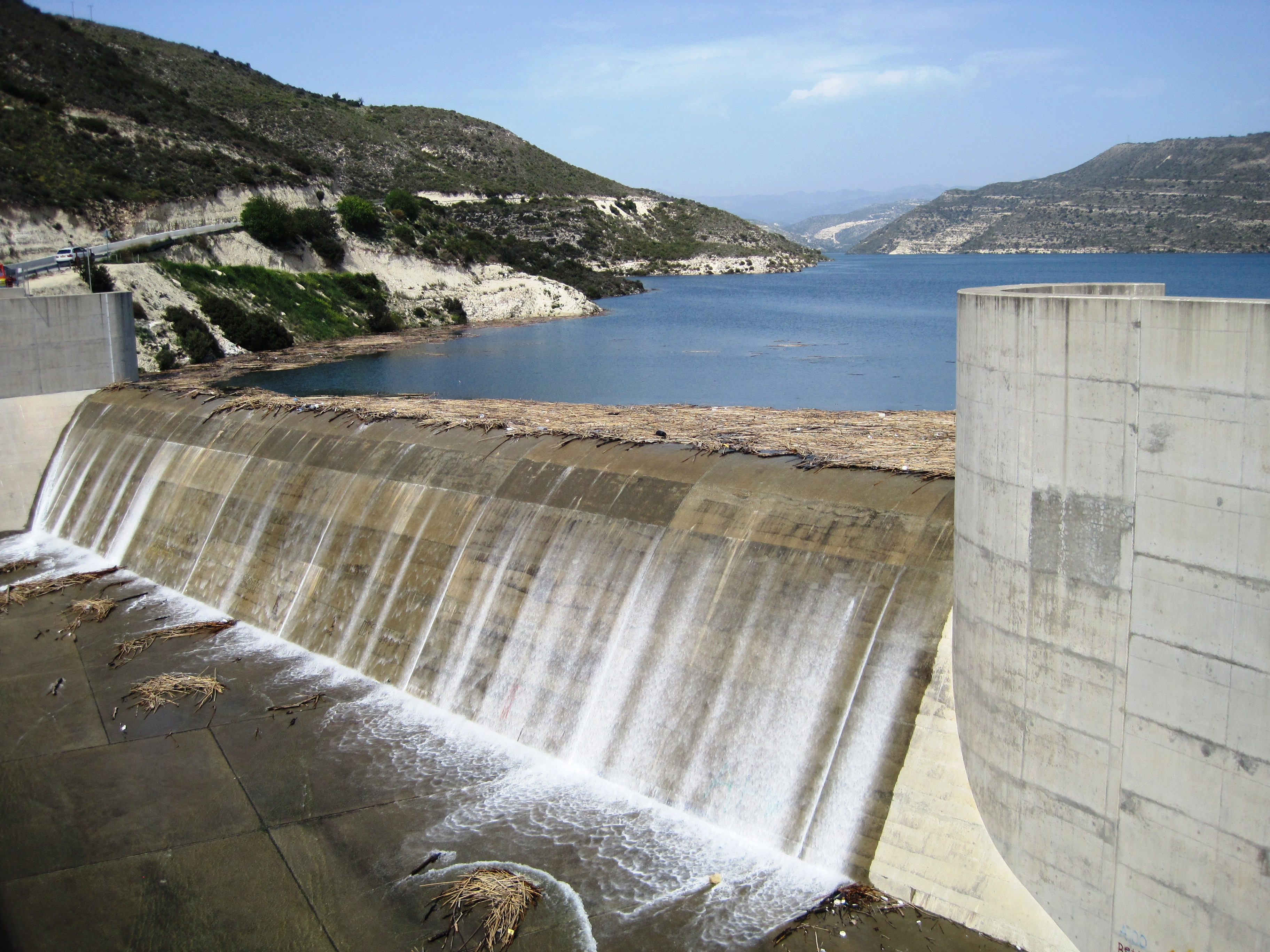 Views from the top of Kouris Dam